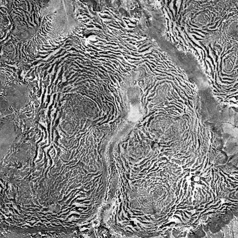 Vertical aerial view of a tiger bush plateau in Niger. Vegetation is dominated by Combretum micranthum and Guiera senegalensis. Image size : 5 x 5 km on the ground. Satellite image from the Declassified corona KH-4A national intelligence reconnaissance system, 1965-12-31.